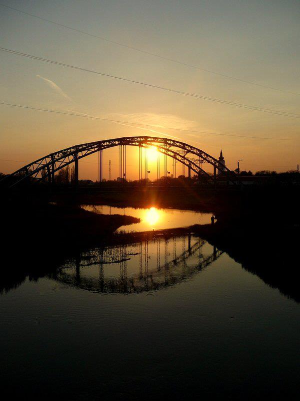 Berettyó river and bridge (Berettyó folyó és híd)